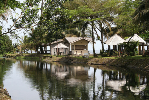 Limbe Beach (Cameroon)